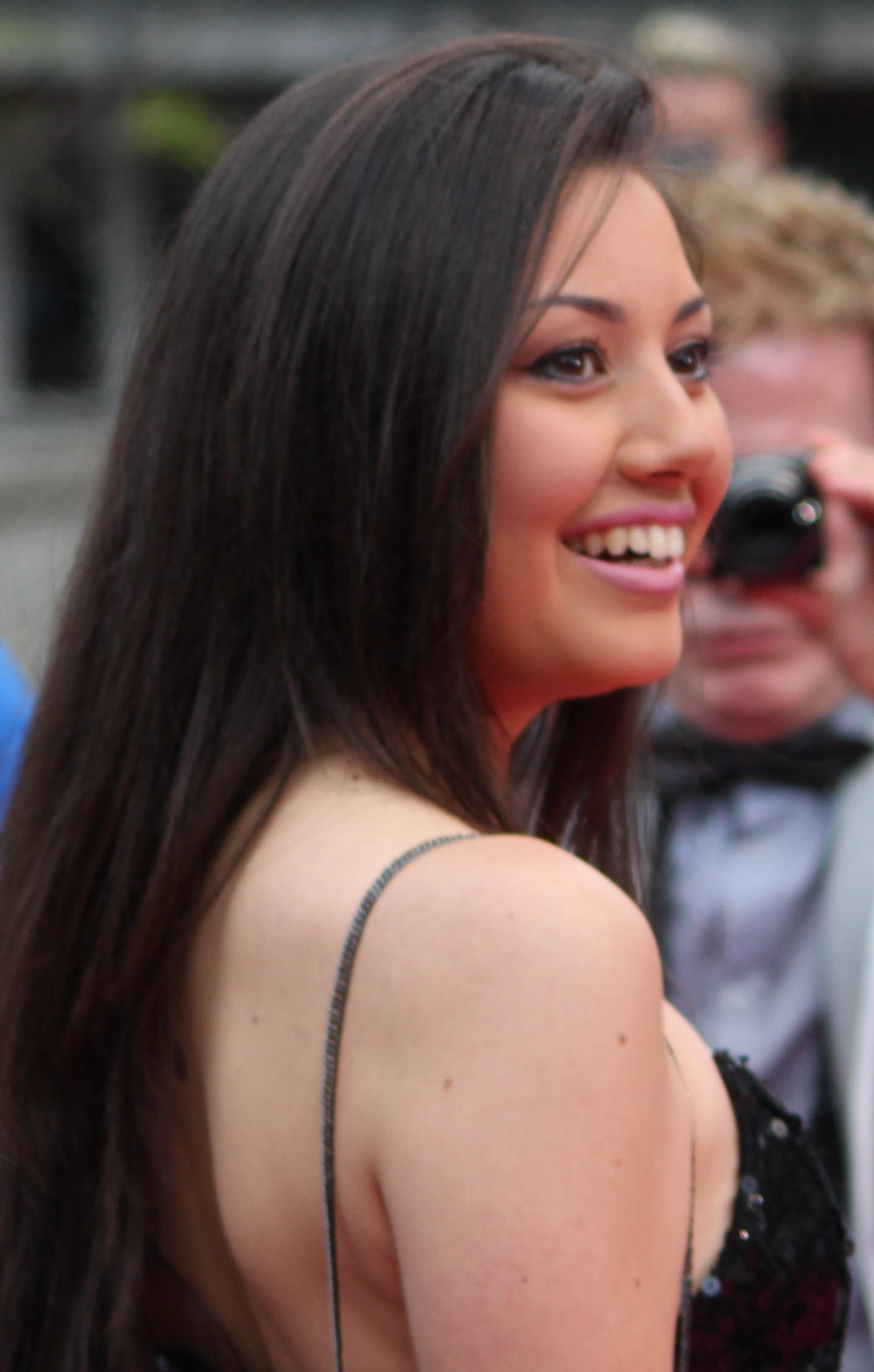 Safura Alizadeh representing Azerbaijan at Eurovision Song Contest 2010 during a Welcome Party at City Hall in Oslo, Norway.